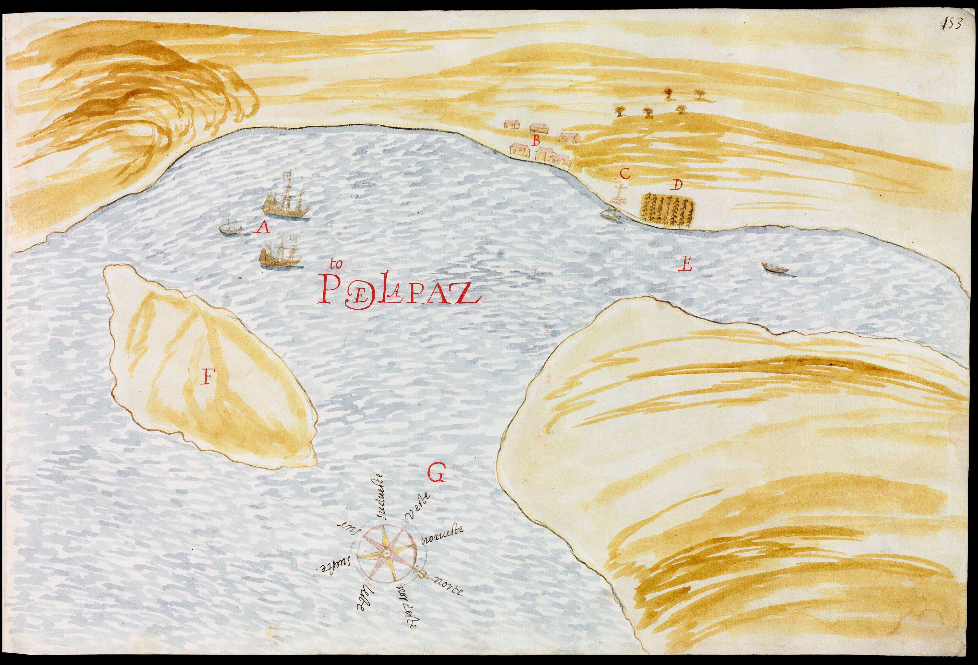 Spanish 17th-century map of Puerto de la Paz, in Baja California, Mexico. Page 153 of the Descripciones geográphicas e hydrográphicas de muchas tierras y mares del Norte y Sur en las Indias, en especial del descubrimiento del Reino de la California (Geographic and hydrographic descriptions of many northern and southern lands and seas in the Indies, specifically the discovery of the kingdom of California), written by captain Nicolás de Cardona after his expedition of 1614.